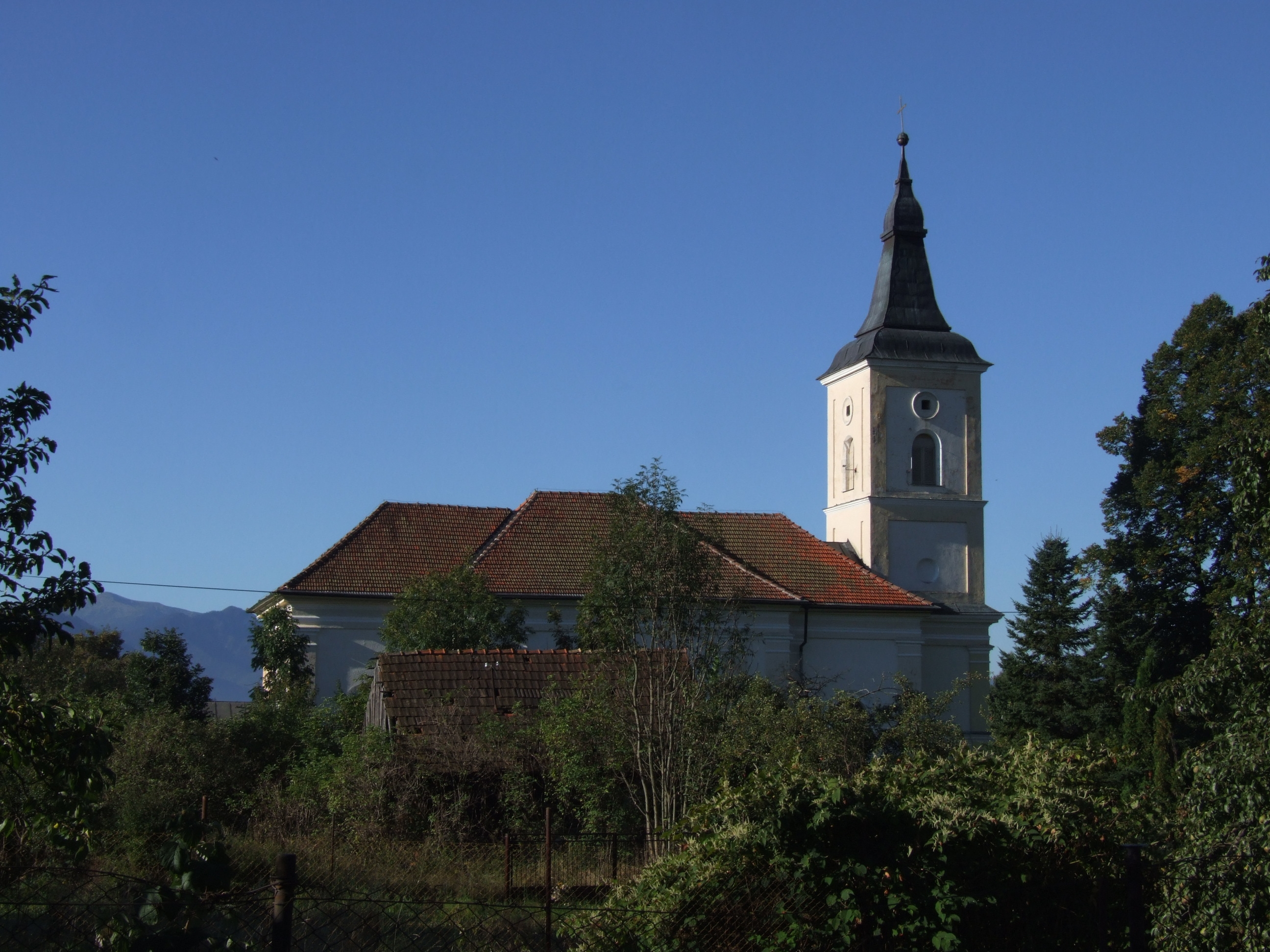 Žiar, Liptovský Mikuláš District